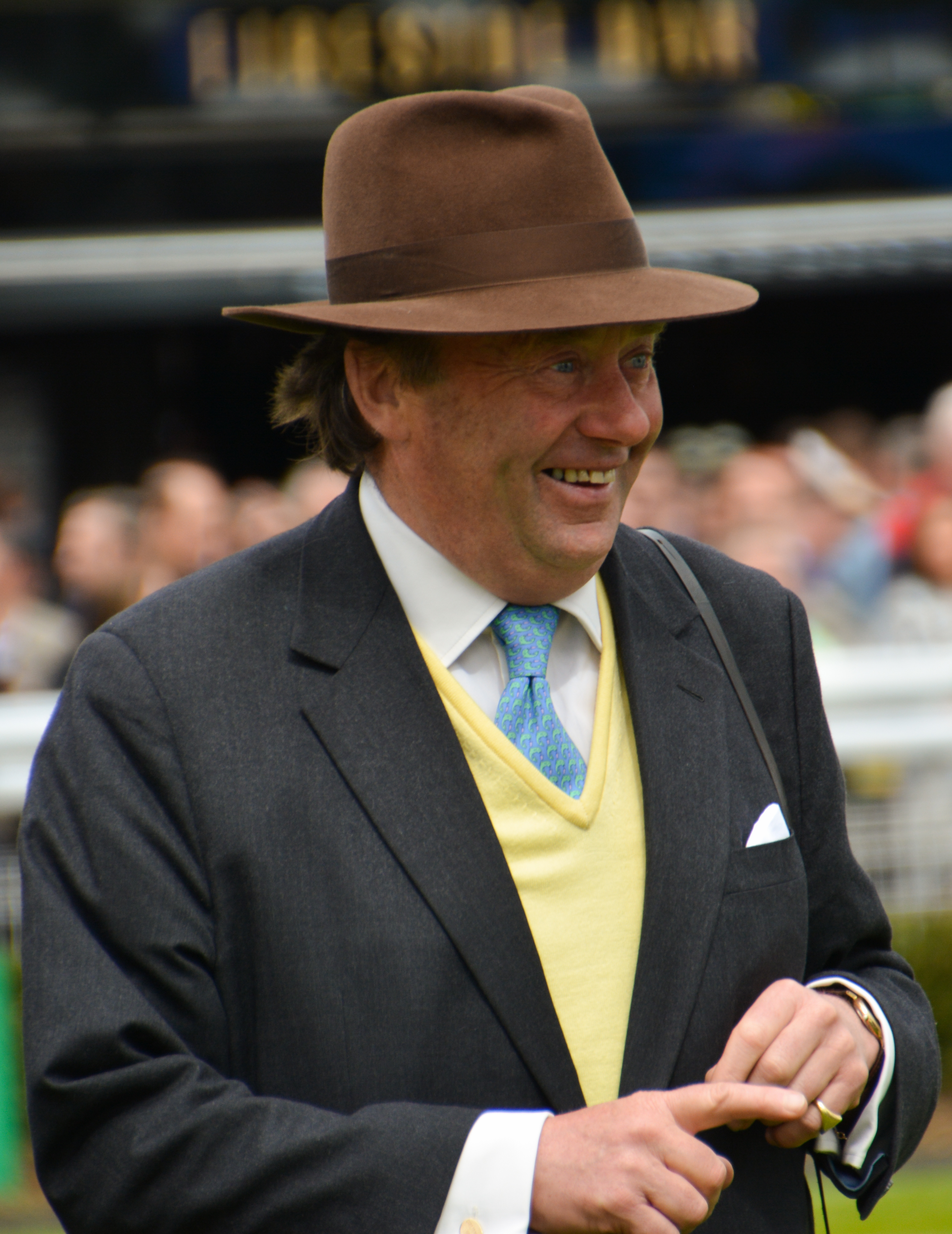 Nicky Henderson. Sandown, April 2015.